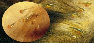 eugene delacroix. the barque of dante. detail